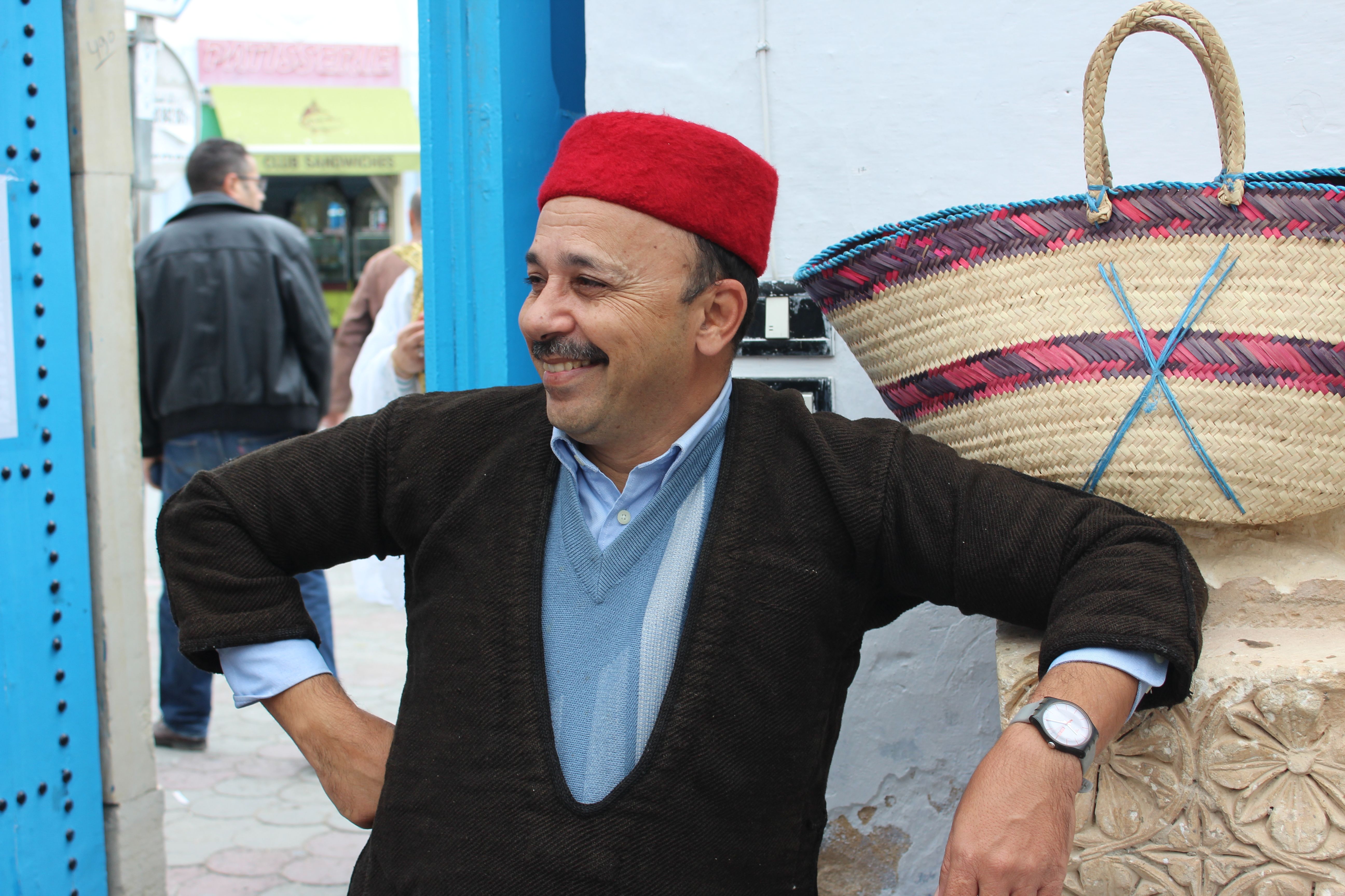 This man wears a kadroun which is a traditionnal long shirt made from wool. On the head, he wears kabous which is a traditional Tunisian hat. Next to him there is a Tunisian bag called Kofa. This is an image of Cultural Fashion or Adornment from Tunisia